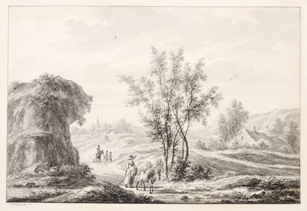 Landscape with travellers